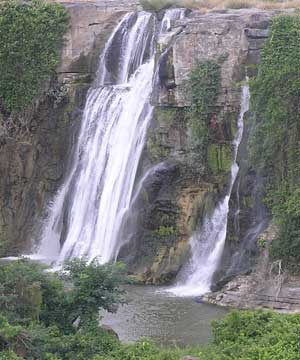 Kuntala Waterfall is waterfall located in Kuntala, Adilabad district, Telangana State. It is located on Kadem river in Neredigonda mandal.[1] It is the highest waterfall in the state of Telangana State[2] with a height of 147 feet (45 meters).[3] According to the popular and prevalent local belief Kuntala Waterfall got its name after Shakuntala, the beloved wife of King Dushyanth; the pair fell in love with each other and were mesmerized by the scenic beauty of the surroundings. The locals also believe that Shakuntala used to bathe by the waterfall. Formed by Kadam River, Kuntala falls cascades down through two steps and can be seen as two separate adjacent falls after the peak rains. It is one of the famous one day outings from Hyderabad. There is a motorable road till the entry point of falls from where steps are available to reach bottom of falls. The falls is about 10 minutes (one way) walk from the entry point.